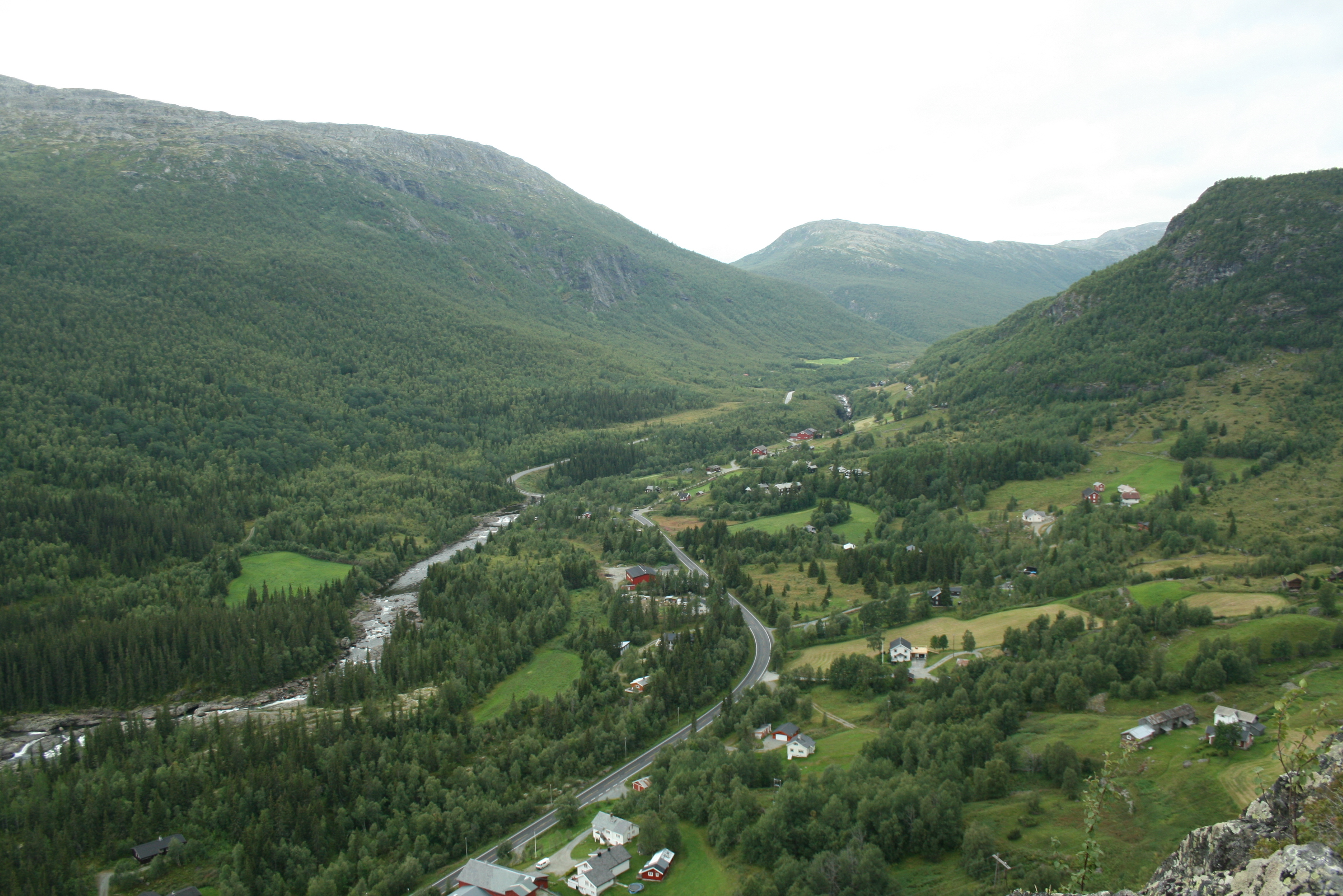 A look from a mountain at the Hemsedal Valley, Norway, in the summer